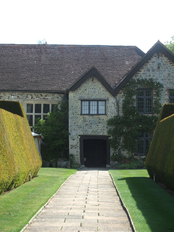 Knightstone, an Elizabethan house